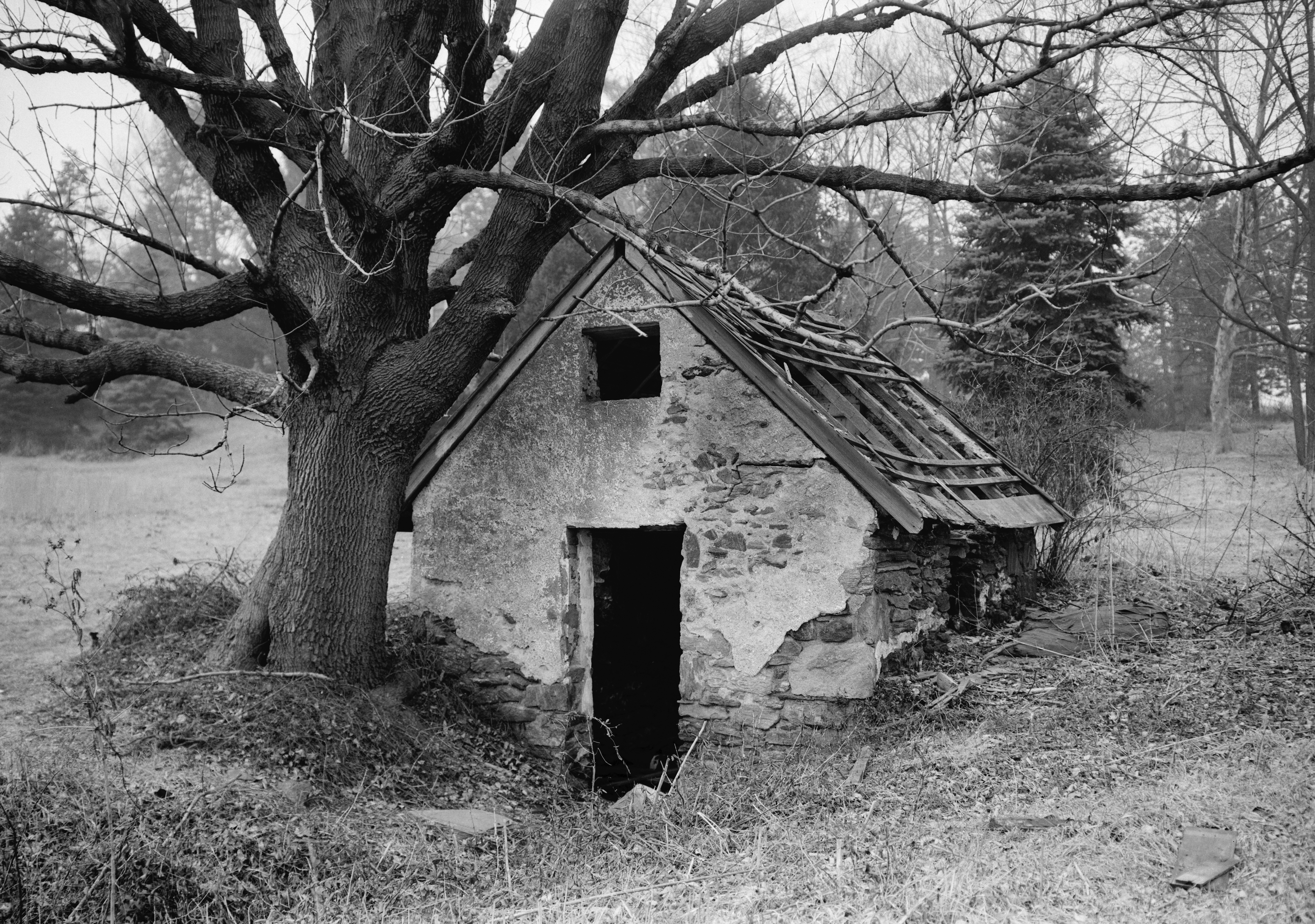 The birthplace of American Founding Father Benjamin Rush. Spring House, Red Lion Road, Philadelphia, Philadelphia County, PA.